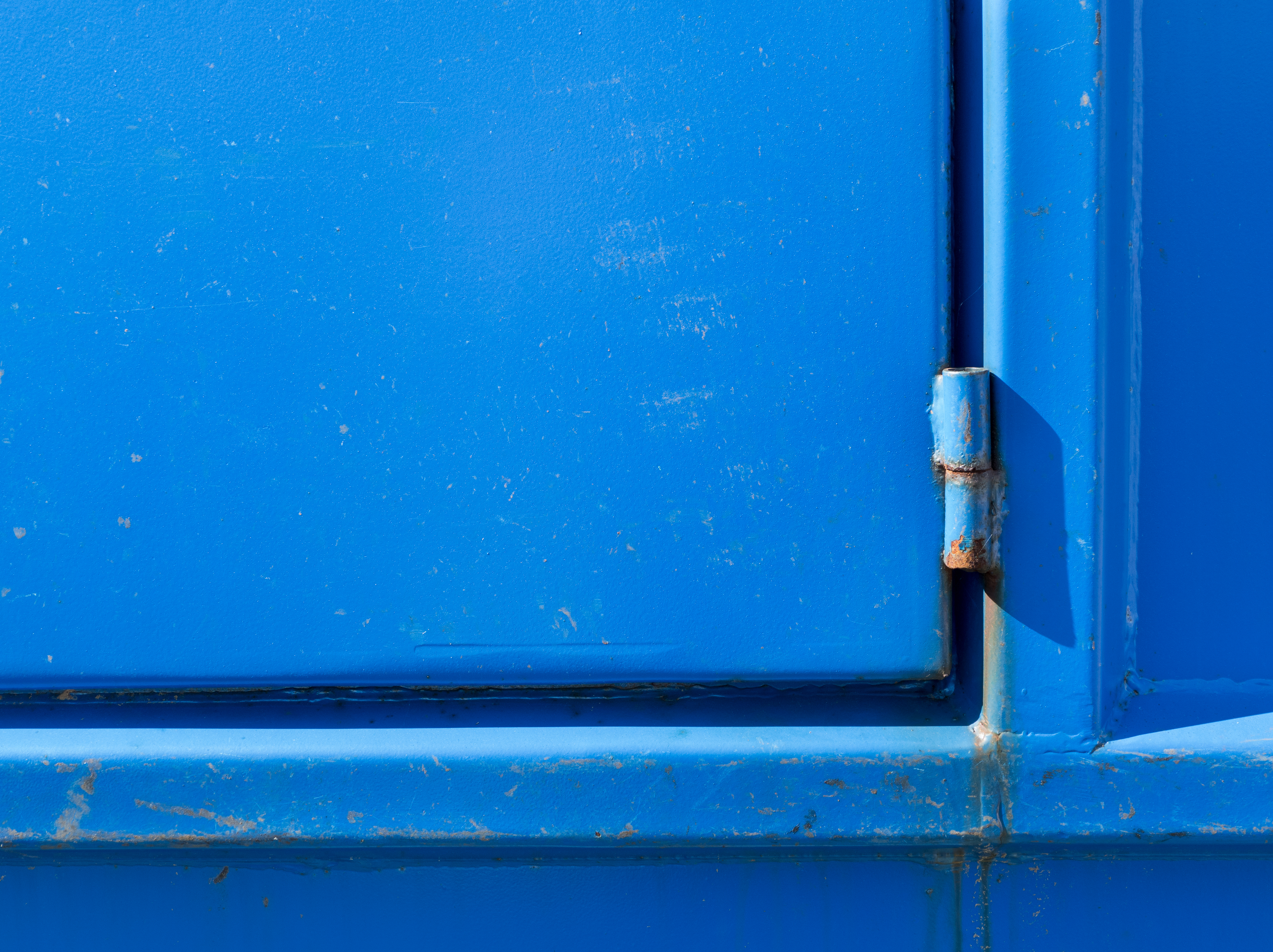 One of the hinges on a hatch on the side of a blue dumpster outside a pipe welding firm in Gåseberg, Lysekil Municipality, Sweden.